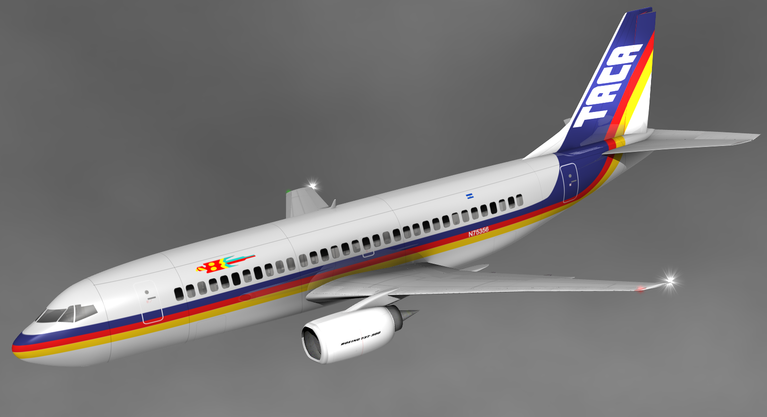 TACA Flight 110 coming in for a no engine landing but functioning APU